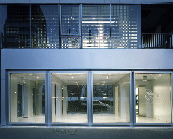 AndA a Tokyo